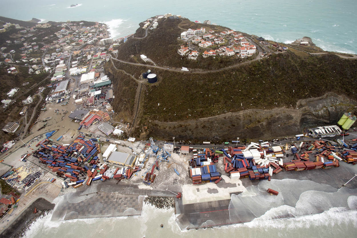 Hurricane Irma on Sint Maarten (Caribbean Netherlands) - air photo